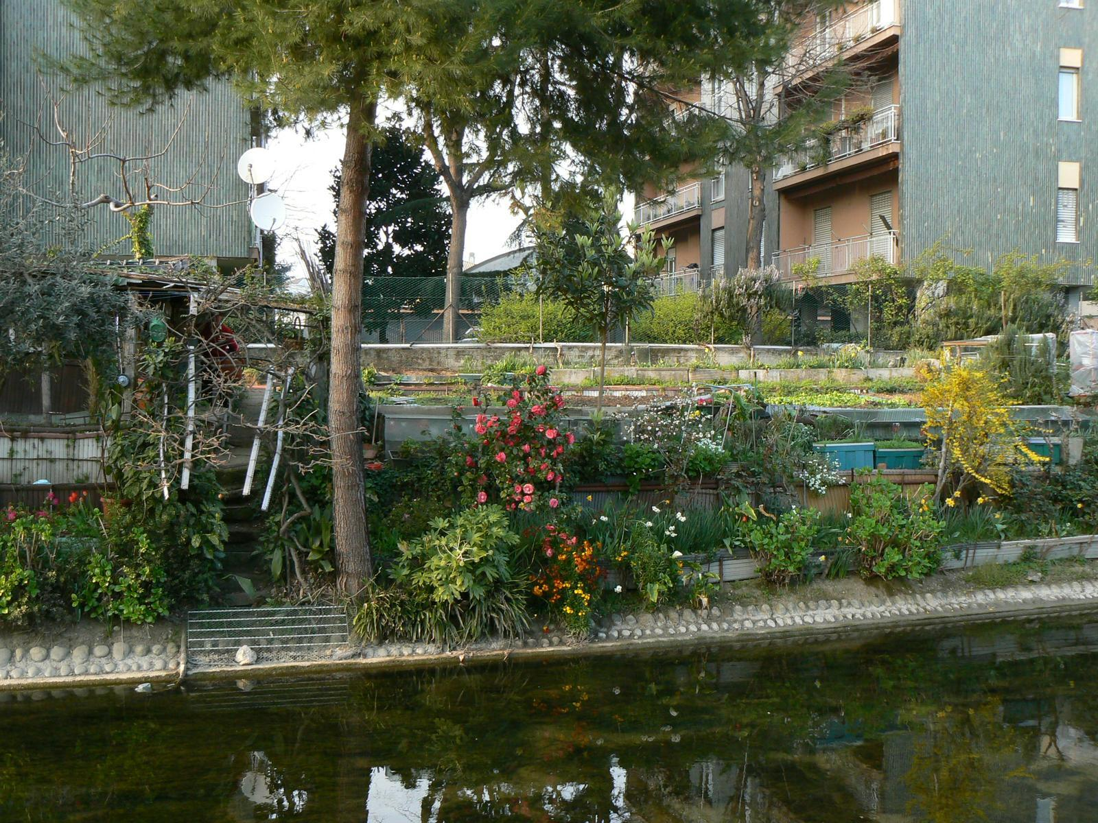 Naviglio della Martesana a Greco. Old canals still cross parts of Milan. Long left to decay, some short parts are still a nice (and widely unknown) walk on Sunday afternoons. Many citizens of Milan have never been here...